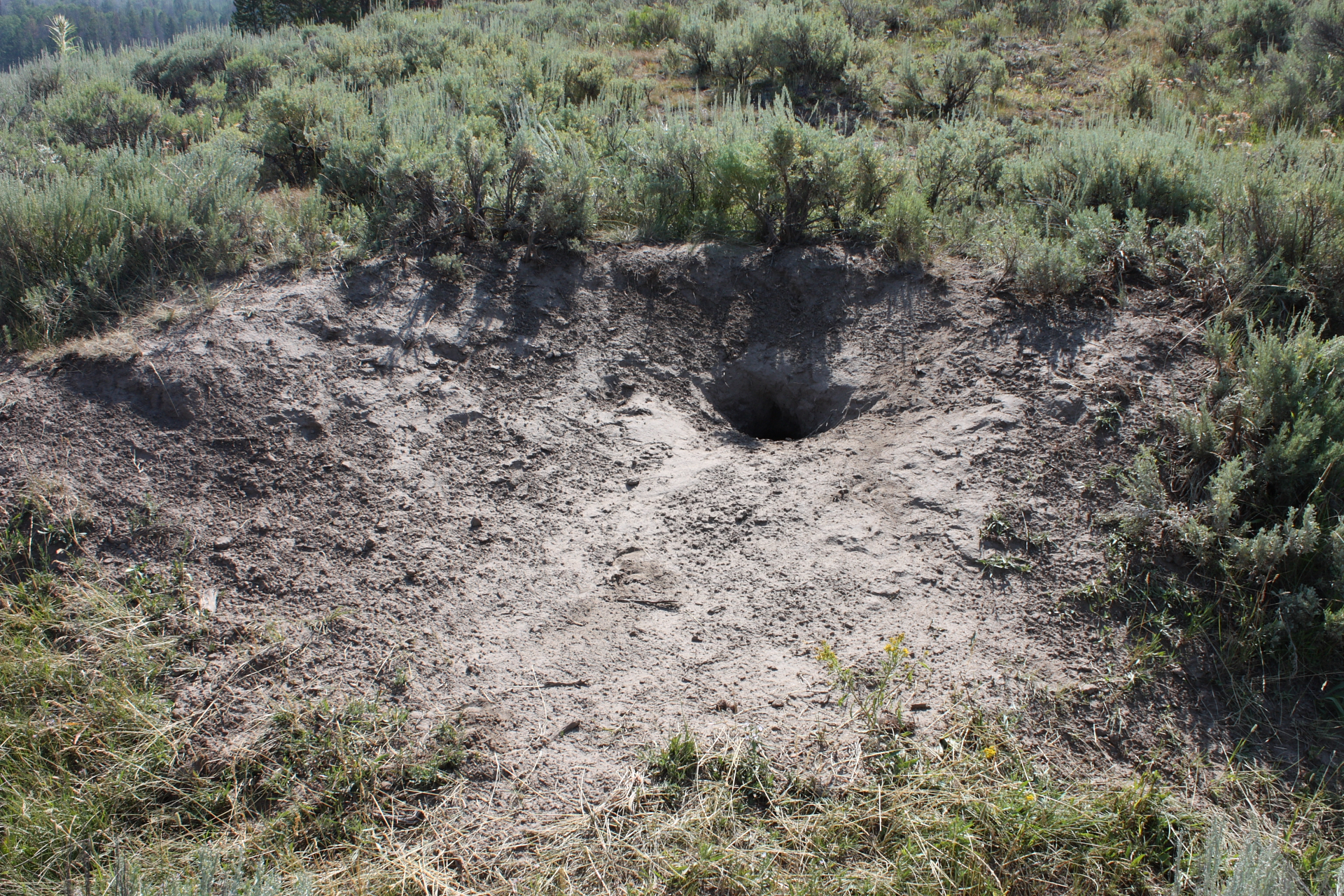 A coyote den in Jackson Hole, Wyoming, USA